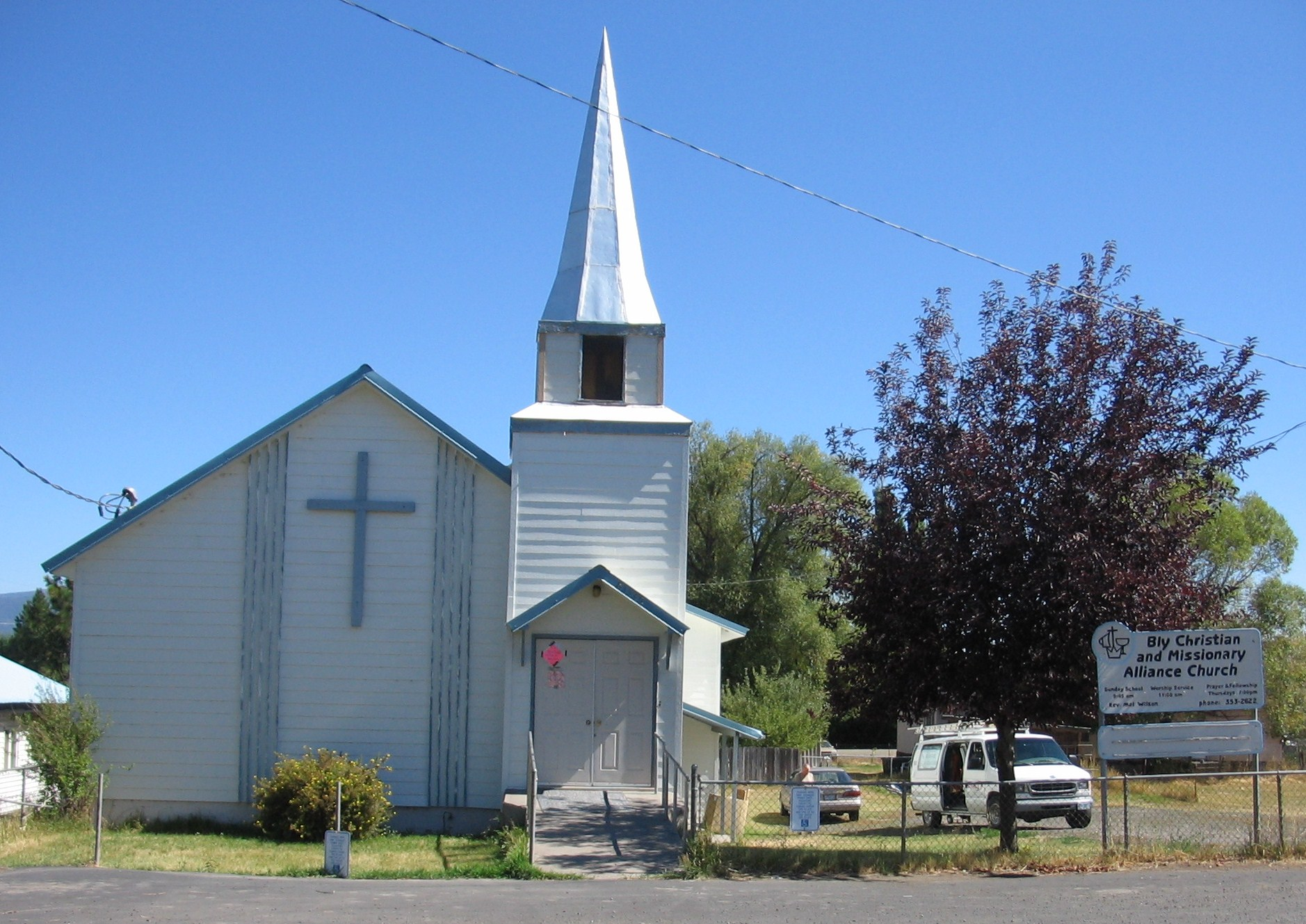 Standing Stone Church, formerly The Christian and Missionary Alliance church in Bly, Oregon. In 1945 one adult and five children from the church were killed by a Japanese balloon bomb.